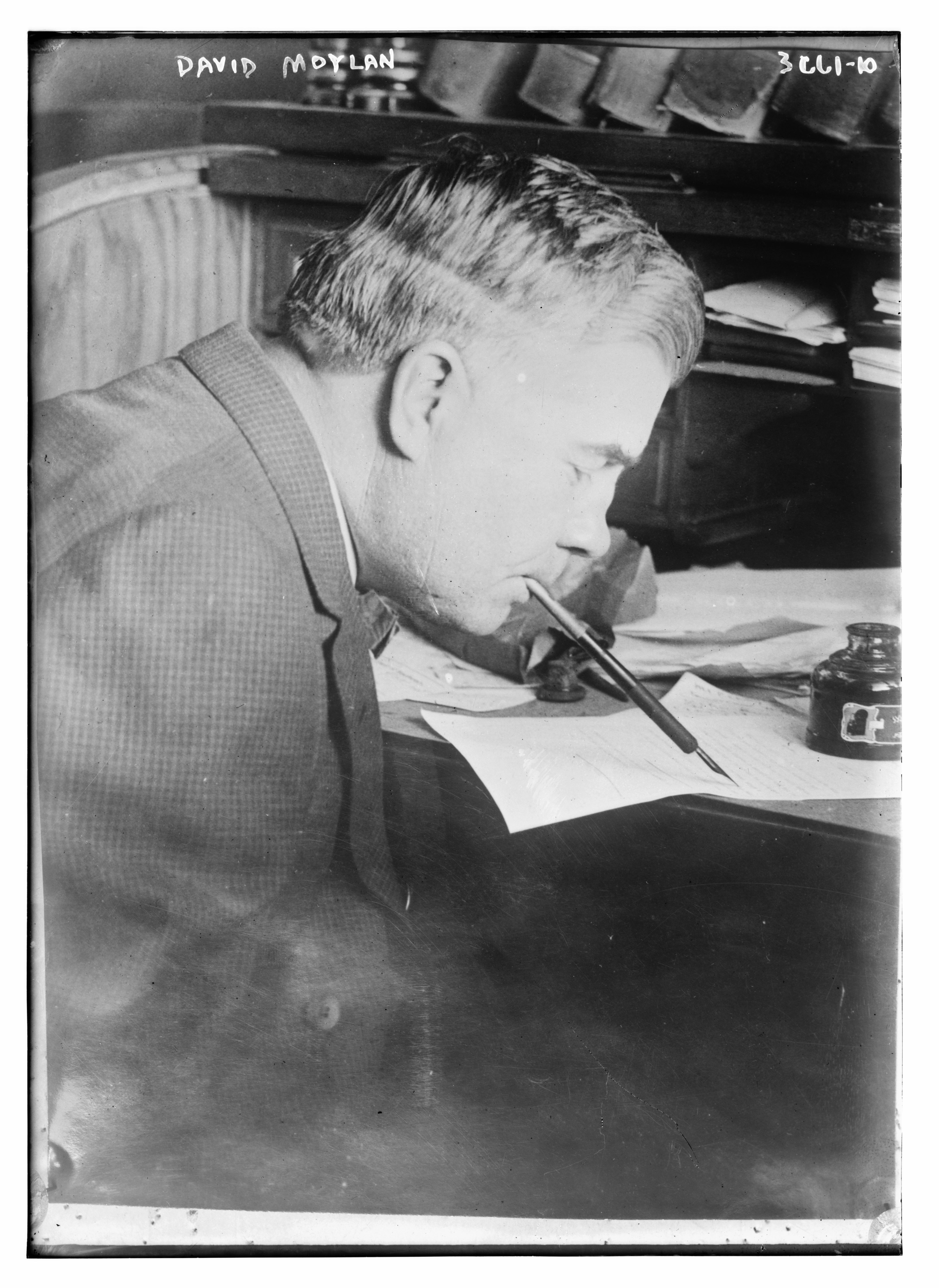 Title: David Moylan Abstract/medium: 1 negative : glass ; 5 x 7 in. or smaller.